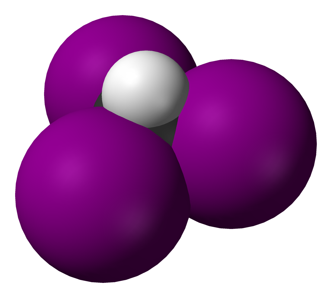 Space-filling model of the iodoform molecule, CHI3. Gas-phase electron diffraction data from J. Mol. Struct. 657 (2003) 381–384 Image generated in Accelrys DS Visualizer.